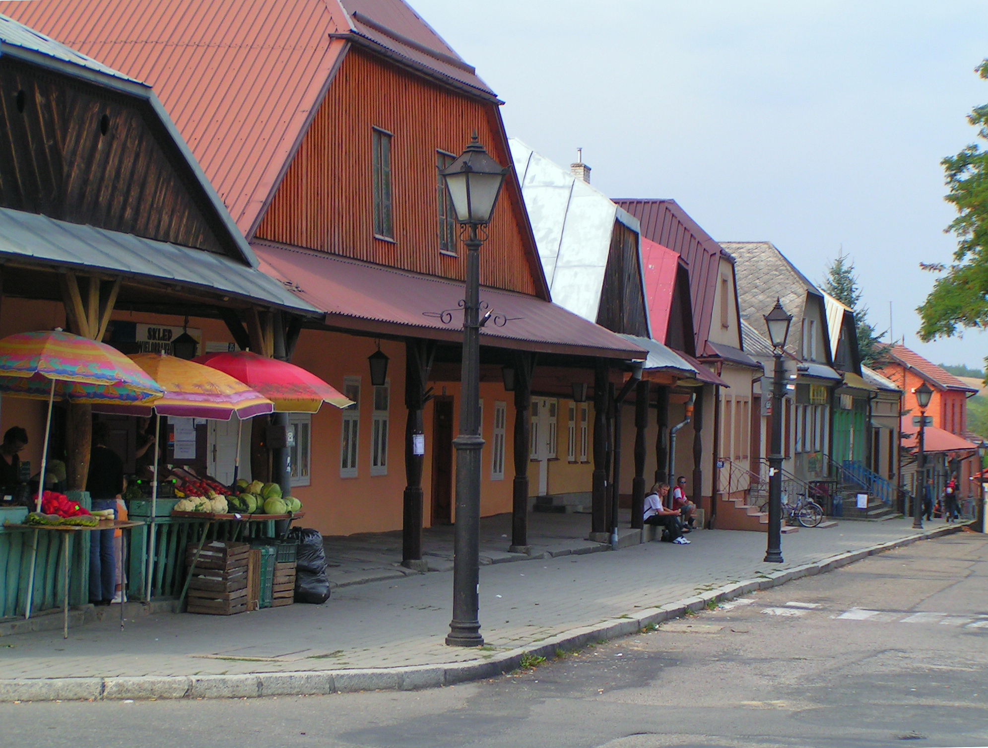 Ciężkowice - the west side of Market Square